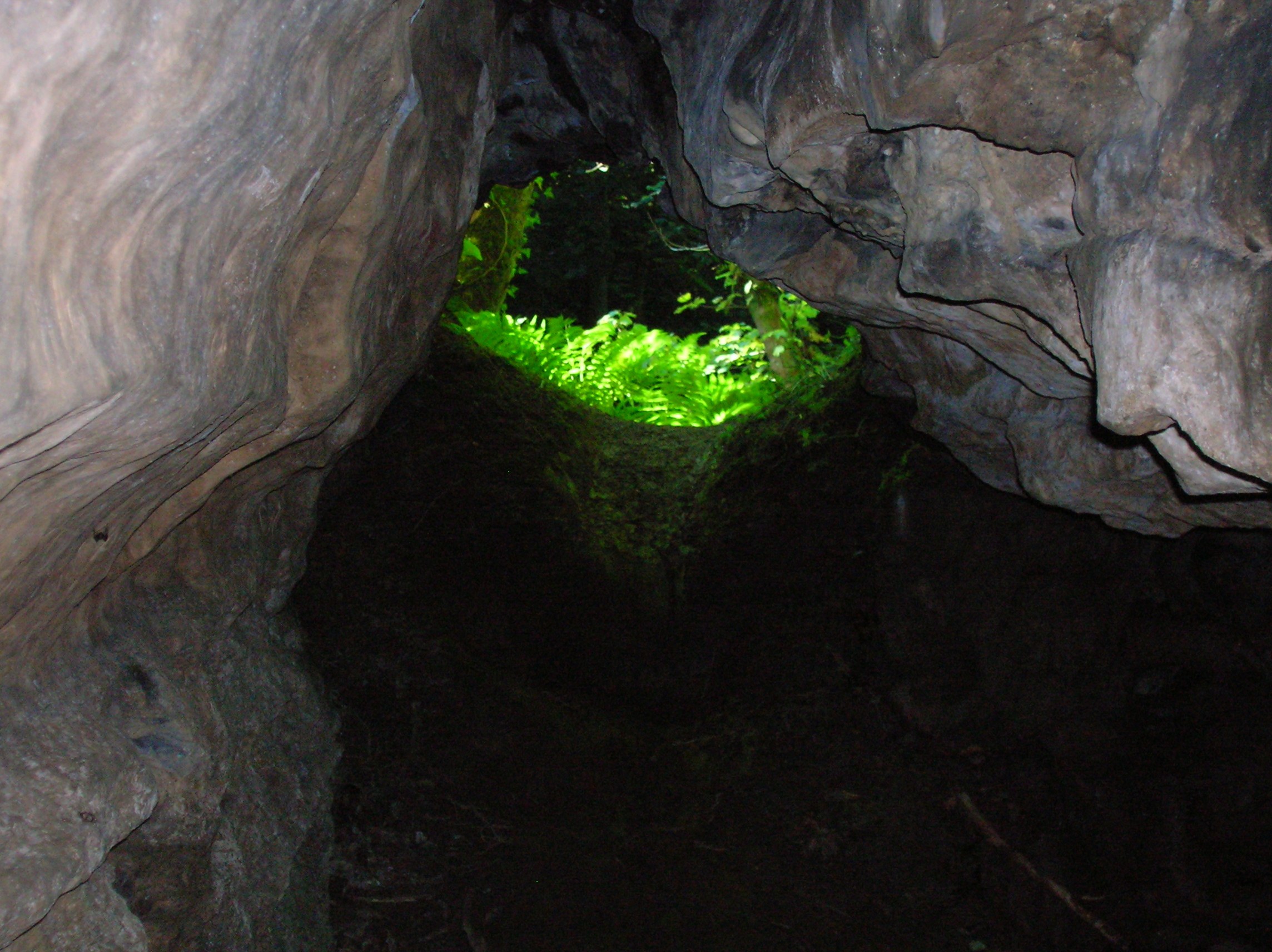 One of several entrances at the Cleeves Cove cave system on the Dusk Water near Kilwinning, North Ayrshire, Scotland.Rosser 20:14, 24 July 2007 (UTC)